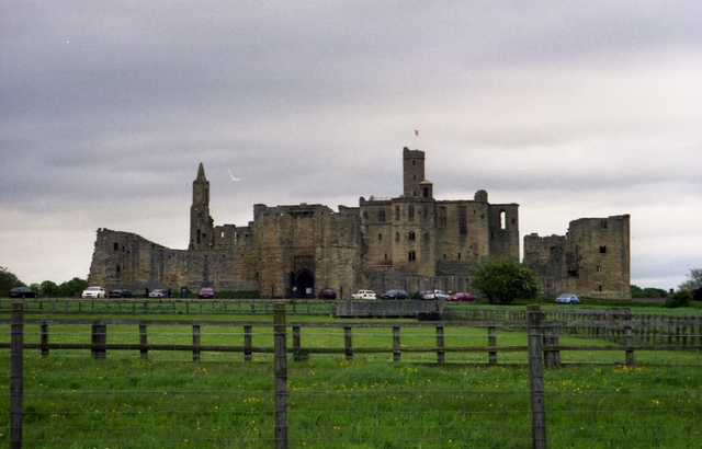 Overall view of Warkworth Castle